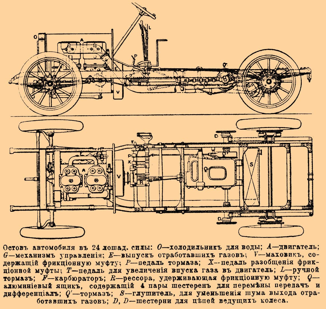 truck chassy This work is in the public domain in its country of origin and other countries and areas where the copyright term is the author's life plus 70 years or less. You must also include a United States public domain tag to indicate why this work is in the public domain in the United States. Note that a few countries have copyright terms longer than 70 years: Mexico has 100 years, Jamaica has 95 years, Colombia has 80 years, and Guatemala and Samoa have 75 years. This image may not be in the public domain in these countries, which moreover do not implement the rule of the shorter term. Côte d'Ivoire has a general copyright term of 99 years and Honduras has 75 years, but they do implement the rule of the shorter term. Copyright may extend on works created by French who died for France in World War II (more information), Russians who served in the Eastern Front of World War II (known as the Great Patriotic War in Russia) and posthumously rehabilitated victims of Soviet repressions (more information). This file has been identified as being free of known restrictions under copyright law, including all related and neighboring rights.